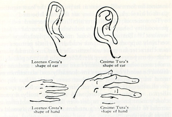 dettagli